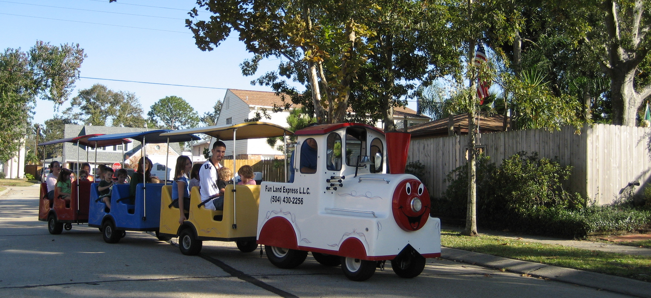 Kiddie party train, Terrytown, Louisiana Photo by Infrogmation, November 2006